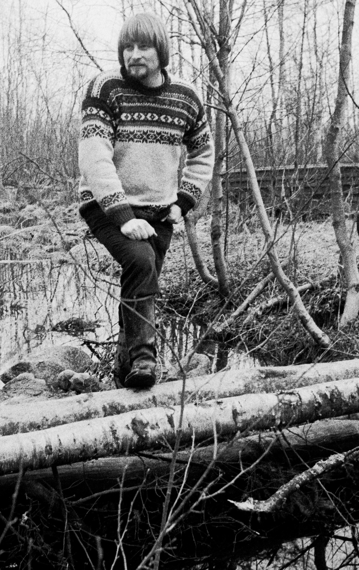 Ville Komsi at Koijärvi 1979.